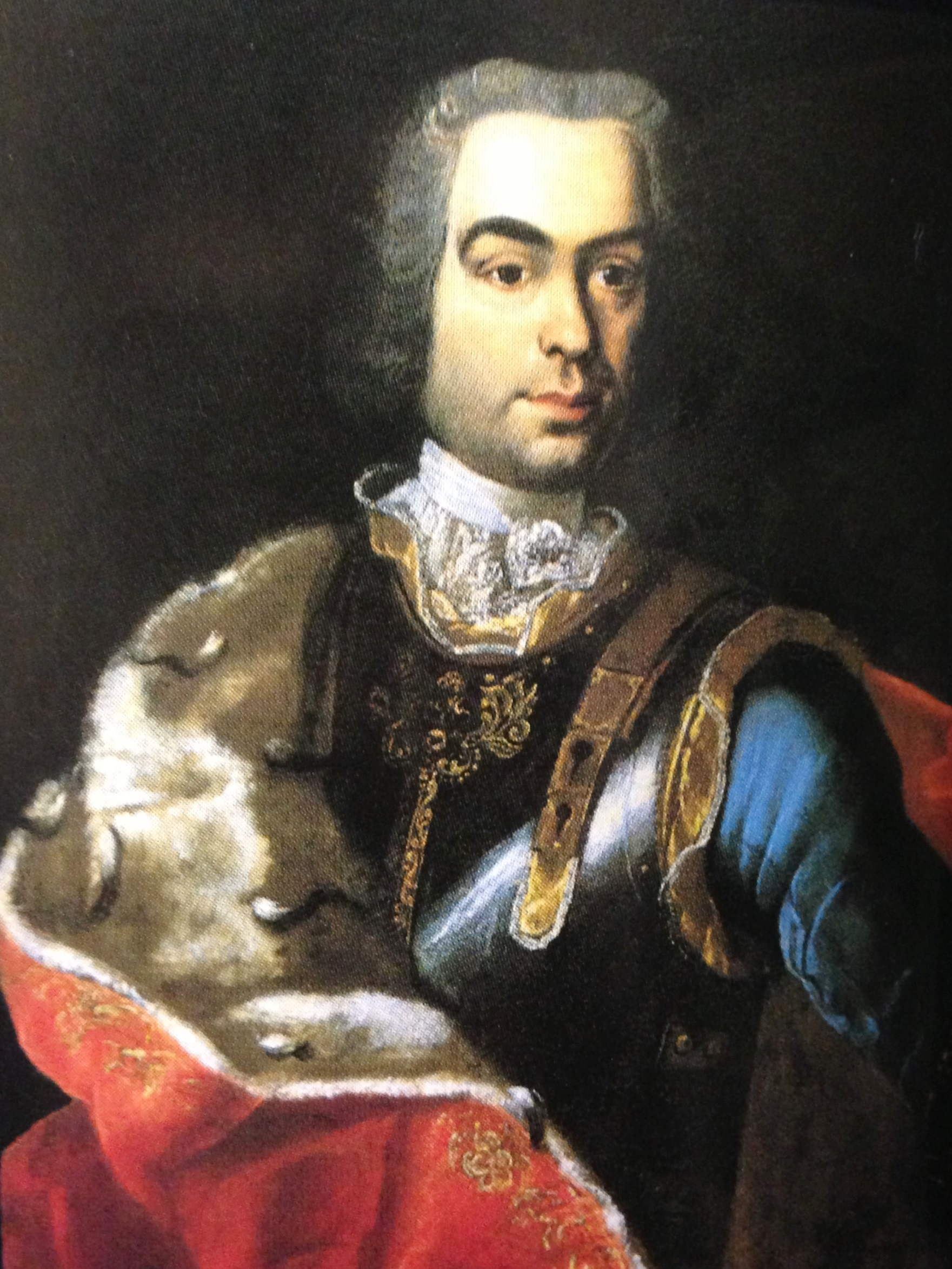 Infante Manuel, Count of Ourém (1697-1766)